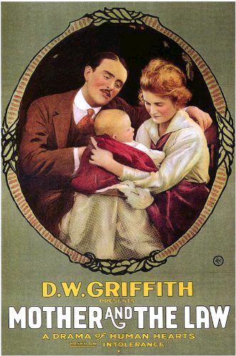 Poster for the 1919 film The Mother and the Law, which was a edited version of the "modern story" from the film Intolerance (1916).